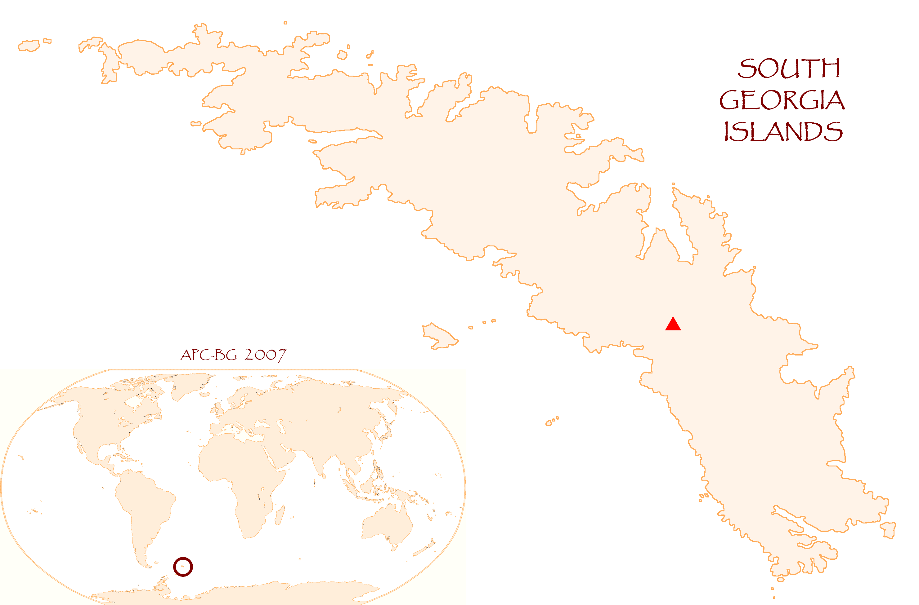 Location map for Mount Roots, Allardyce Range, South Georgia Island